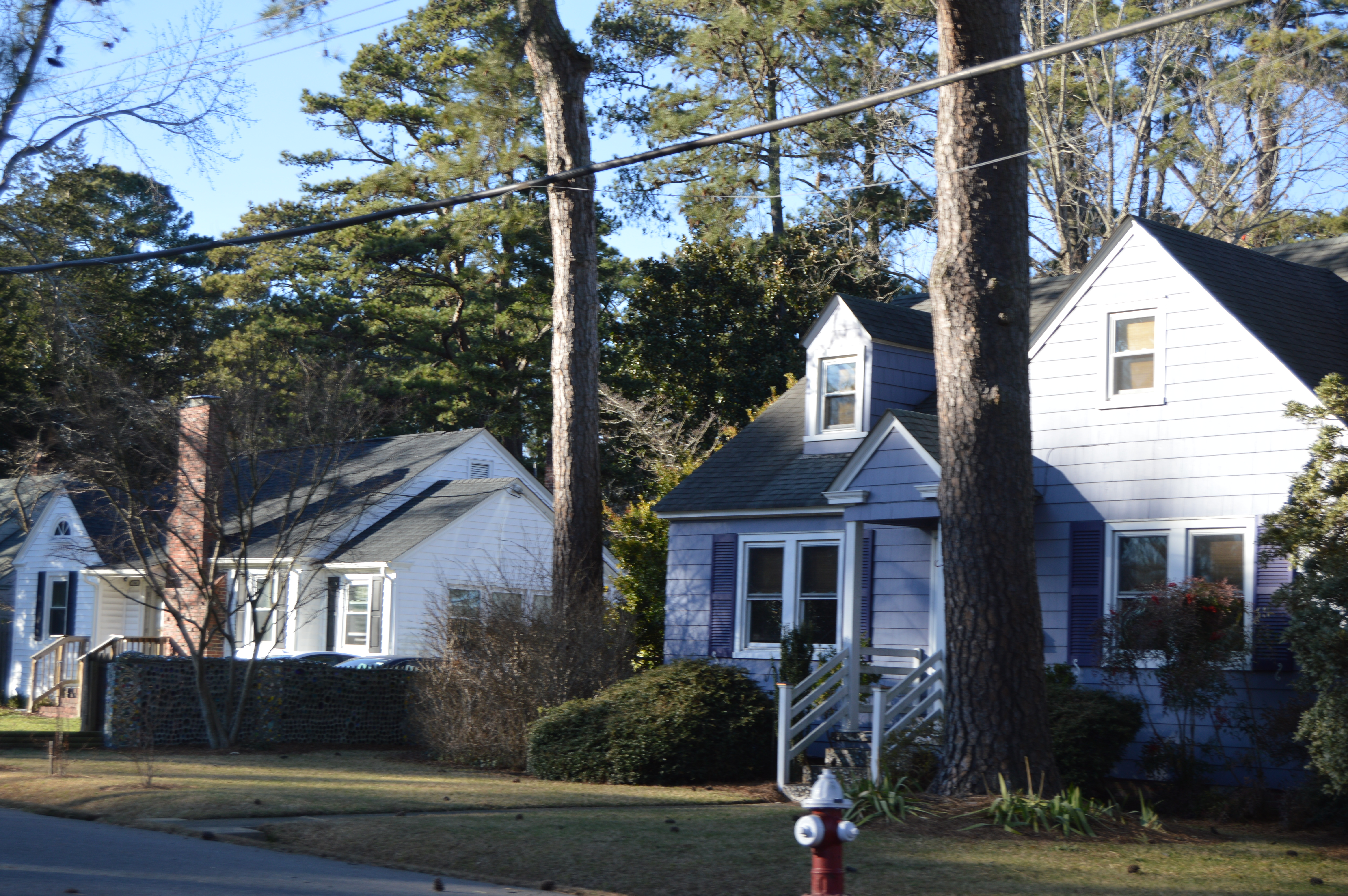 Houses on Michigan Avenue, immediately west of Middle Lane, in Virginia Beach, Virginia, United States. This block is part of the Oceana Neighborhood Historic District, a historic district that is listed on the National Register of Historic Places.